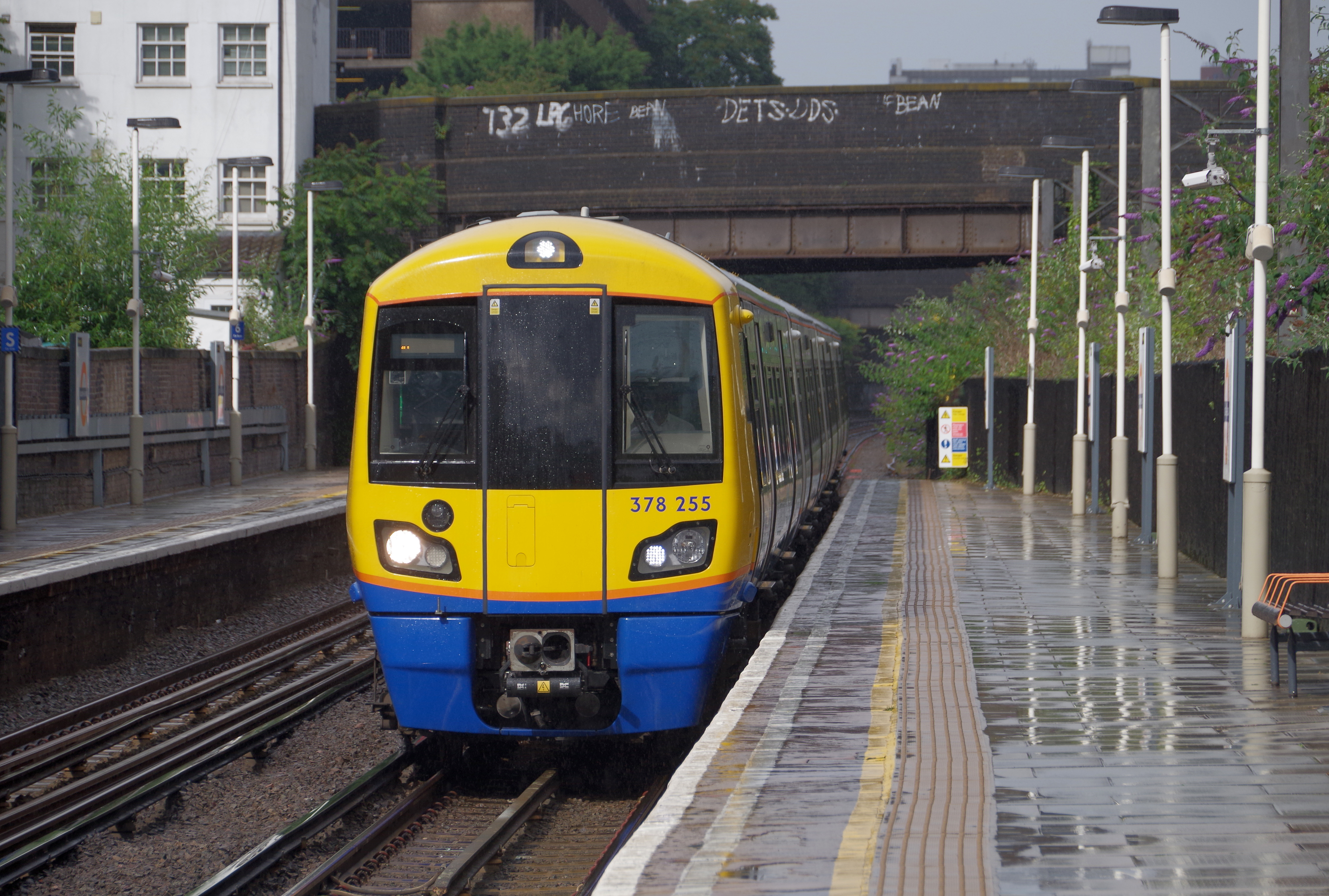 London Overground class 378 "Capitalstar" EMU 378255 arrives at Kilburn High Road railway station, working a Watford DC Line service from London Euston to Watford Junction.